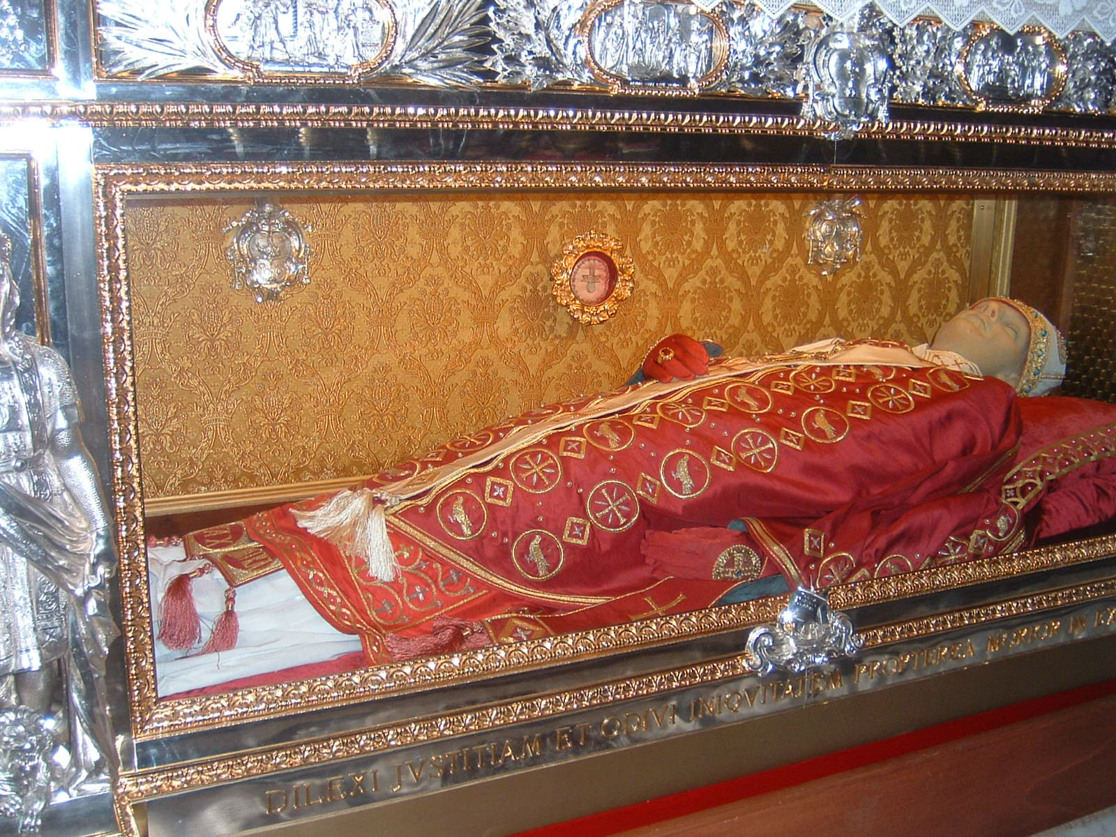 The tomb of Pope Gregorius VII in the Cathedral of Salerno (Italy). Under the tomb the last words of the pope are imprinted: "Dilexi iustitiam, odivi iniquitatem, propterea morior in esilio !" (I loved justicem and I hated iniquity, so I die in exile).